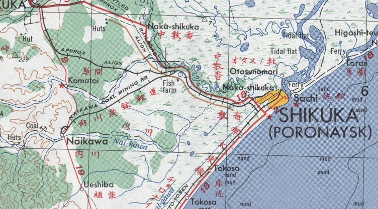 List from Eastern Siberia AMS Topographic Maps. Series N504, U.S. Army Map Service, 1947